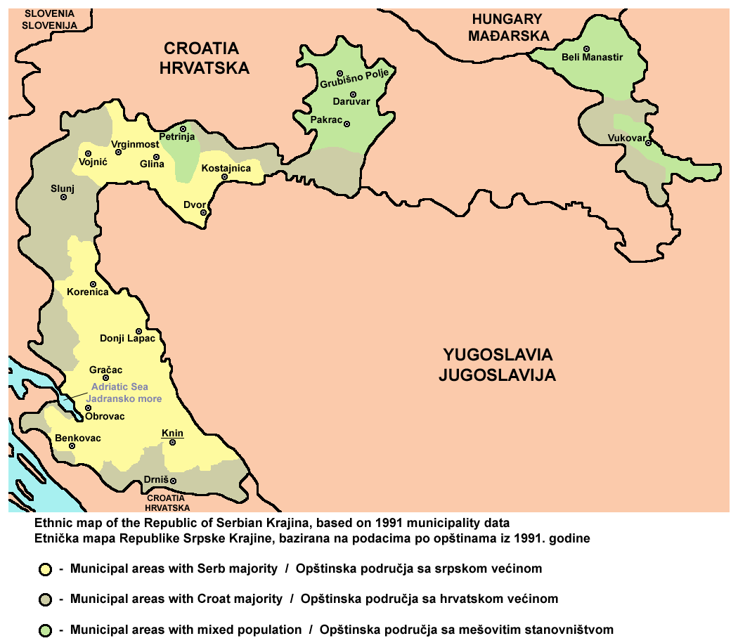 Ethnic map of the Republic of Serbian Krajina, based on 1991 municipality data.